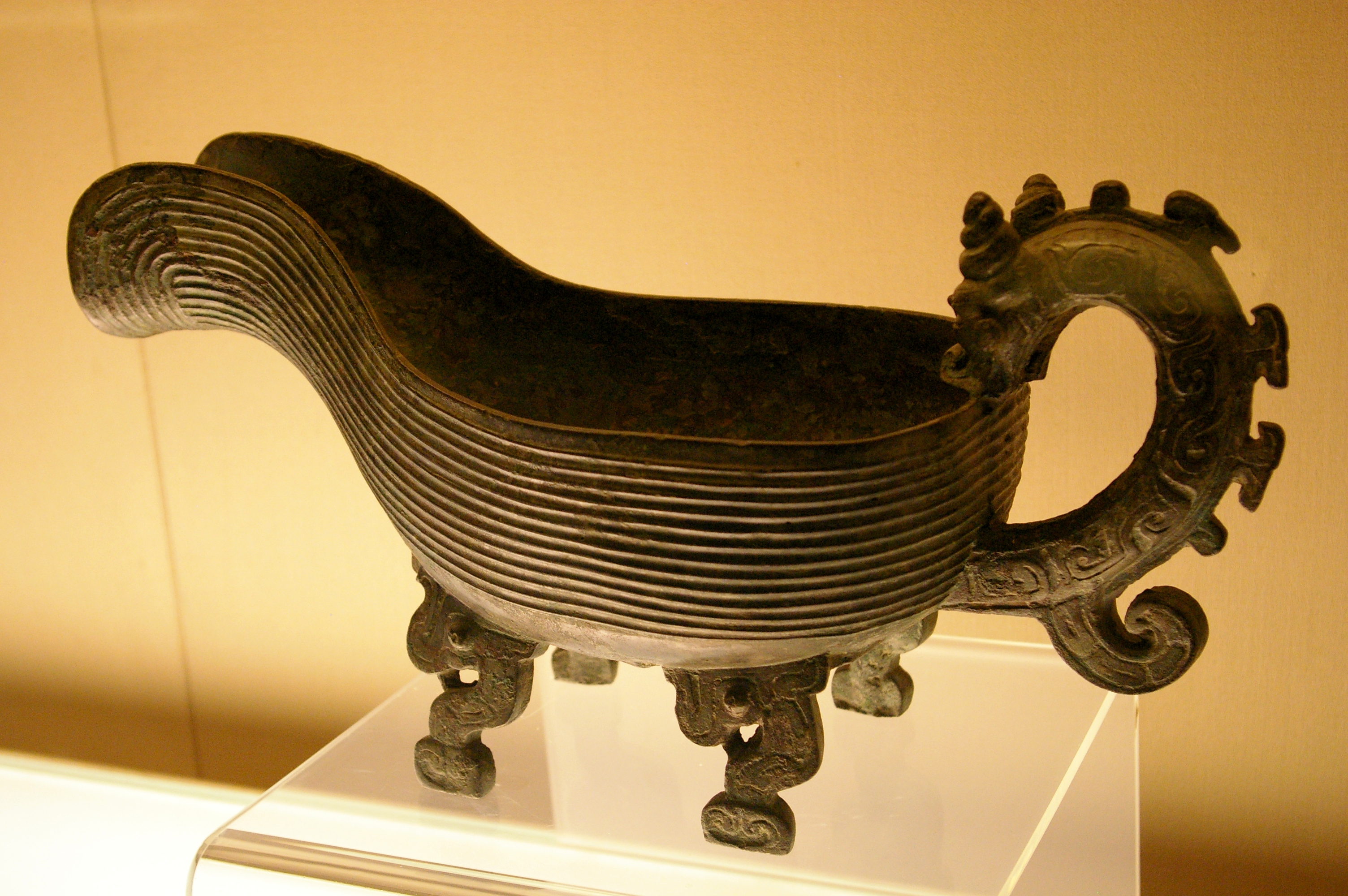 Yi of Marquis Qi.A Yi is an ancient ritual bronze vessel from China. It is believed that it was used to hold water for washing the hands before rituals like sacrifices. This Yi has the shape of half a gourd with a handle in the shape of a dragon, and an oval base. It is supported by four legs decorated with taotie (animal mask designs). The bottom shows 22 chinese characters written in 4 lines, stating that "the Marquis of Qi cast this Yi for his wife Mengji Liangnii, the princess of the State of Guo". It is from the late Western Zhou Dynasty (-1046 to -771), and is part of the collections of the Shanghai Museum. Height: 24.7cm Length: 48.1cm Weight: 6.42 kg